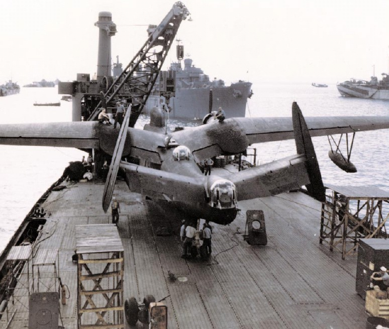 A U.S. Navy Martin PBM-5 Mariner of Patrol Bombing Squadron 26 (VPB-26) aboard the seaplane tender USS Norton Sound (AV-11) in Tanapag Harbor, Saipan in April 1945. USS LST-727 is in the left background. The submarine tender USS Fulton (AS-11) is in the center and USS Kenneth Whiting (AV-14) is at right, with a PBM on the water beyond her stern.